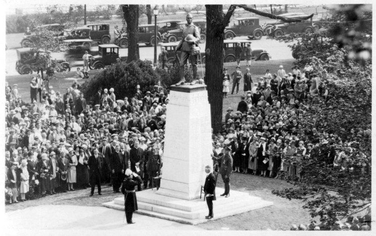 Postcard of the Great War Memorial Niagara Falls Canada - Clifton Hill in Queen Victoria Park - The Official Unveiling.